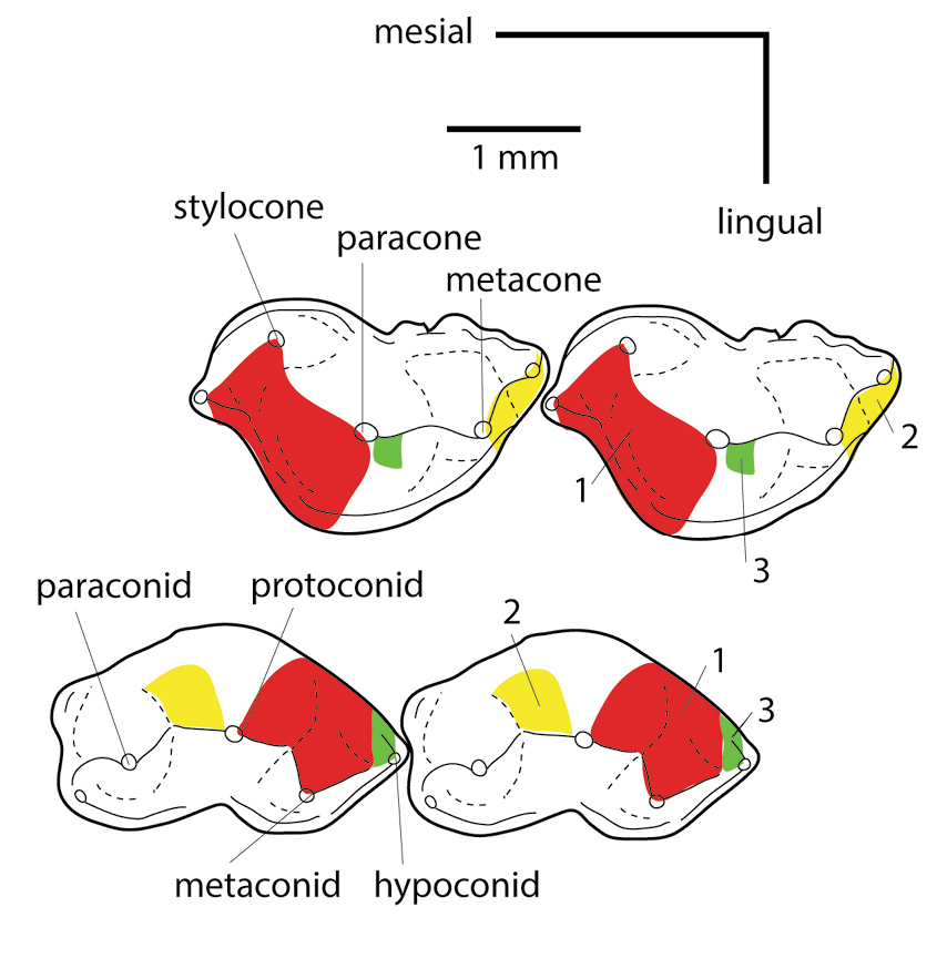 Molar terminology and wear facet designation showing upper and lower molar tooth cusp morphology of the “symmetrodont” Kuehneotherium after Davis (2011a)